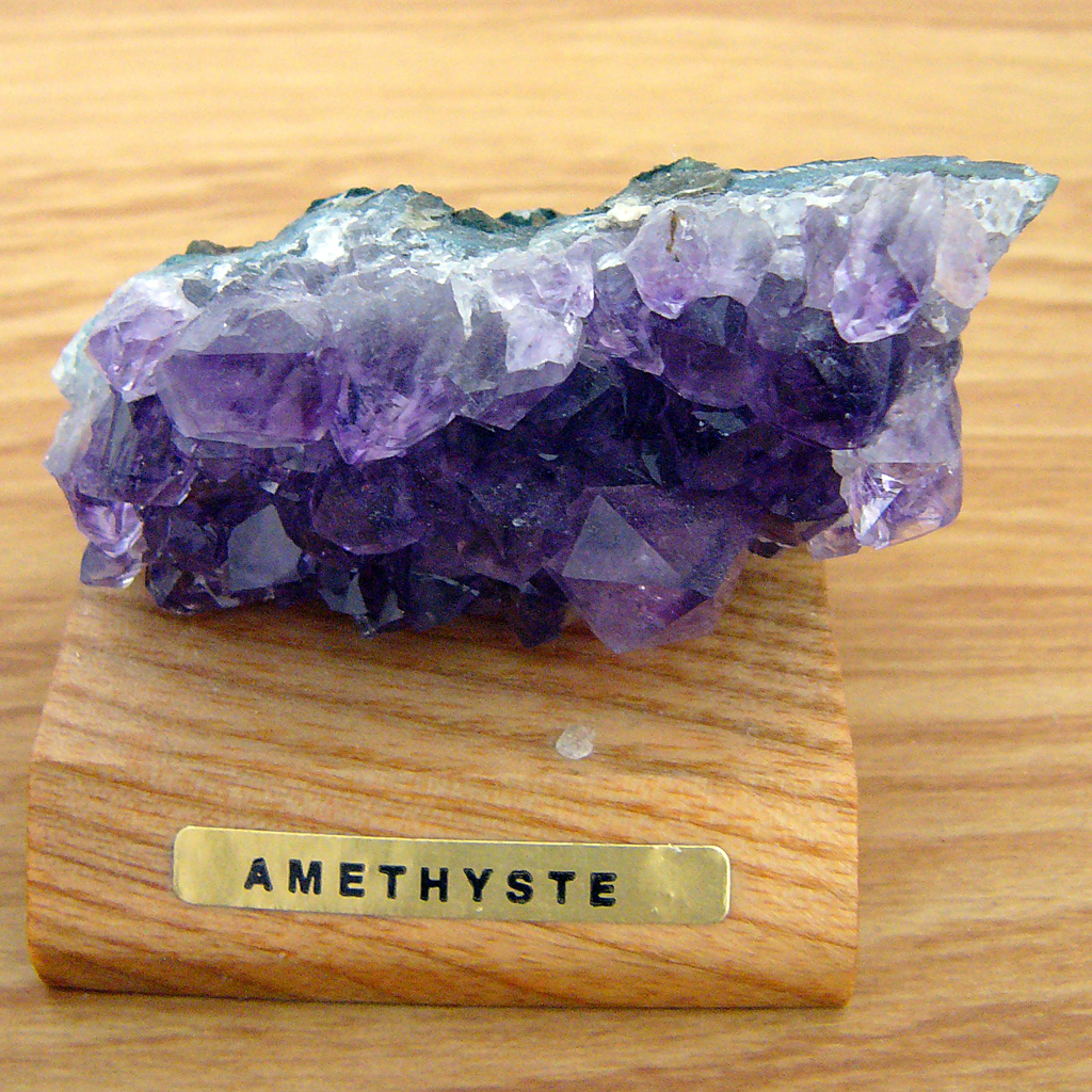 Amethyst is a violet variety of quartz often used in jewelry.